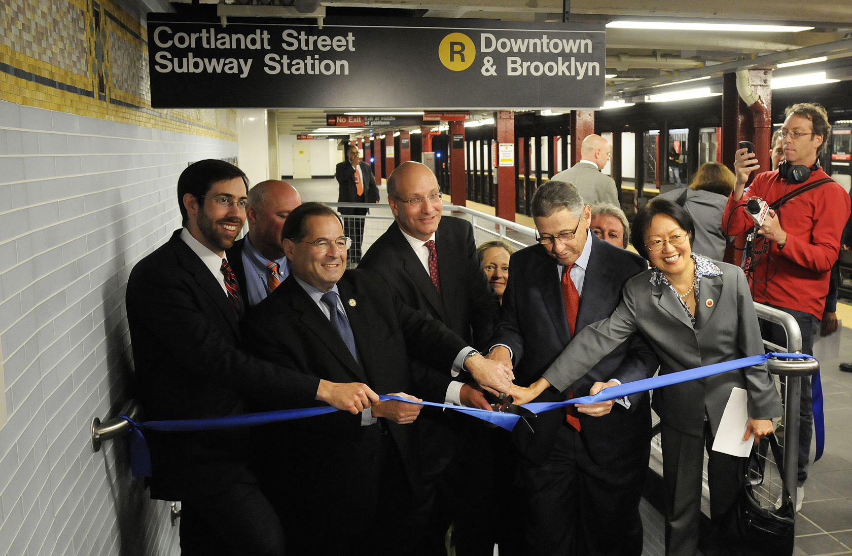 MTA Chairman Jay H. Walder and elected officials re-opened the southbound platform of the Cortlandt St R subway station on Tuesday, Sept. 6, 2011. Left to right (front row): NYS Senator Daniel Squadron; Congressman Jerrold Nadler; MTA Chairman Jay H. Walder; NYS Assembly Speaker Sheldon Silver; and NYC Council Member Margaret Chin. Photo by Metropolitan Transportation Authority / Patrick Cashin.